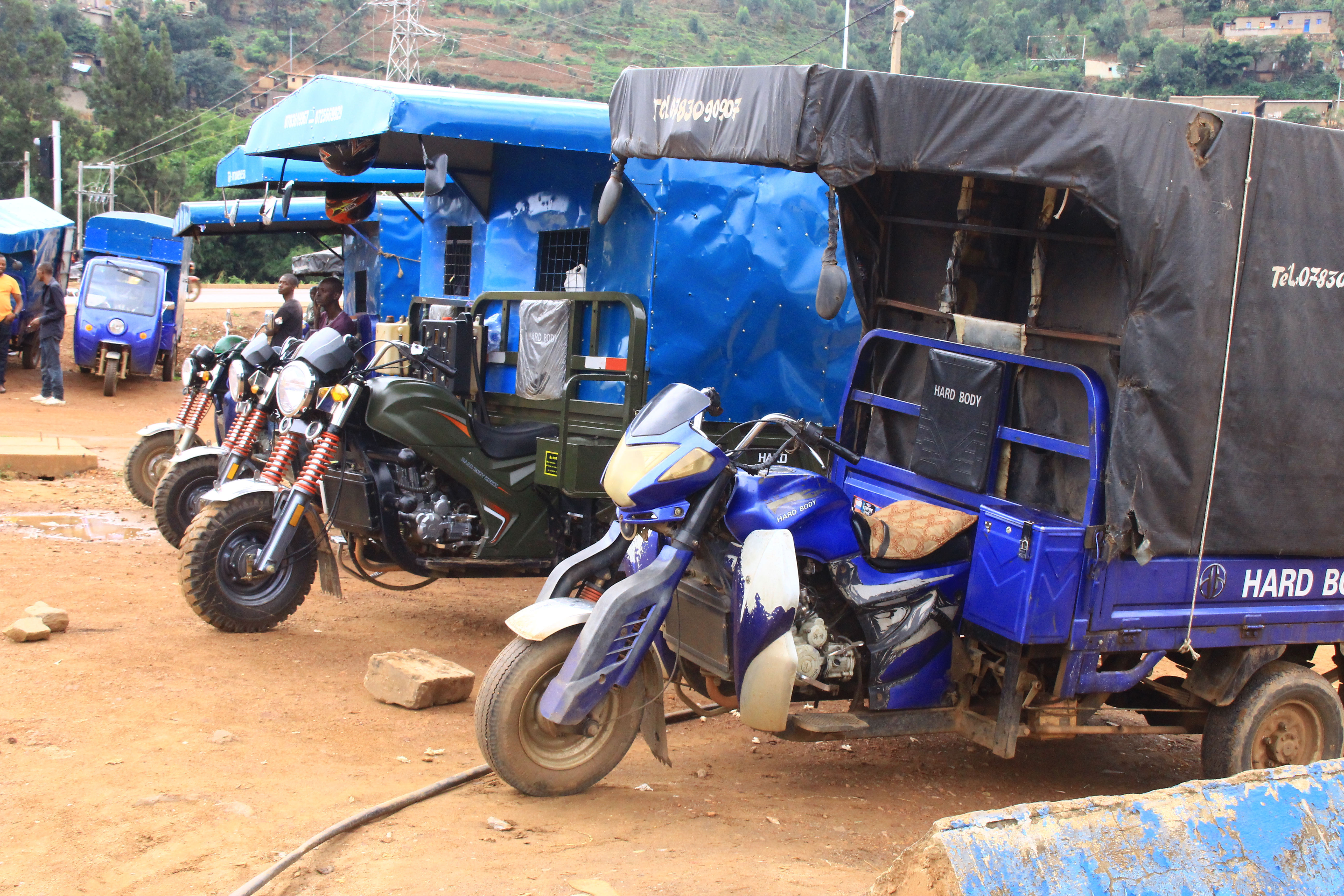 Blue lifan parking at Kigali This is an image with the theme "Africa on the Move or Transport" from: Rwanda